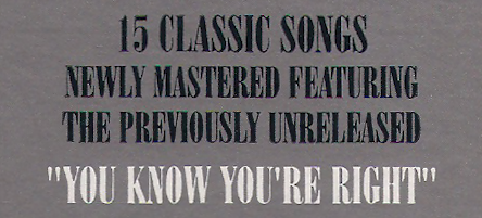 The sticker found on the 2002 compilation album "Nirvana" by Nirvana.